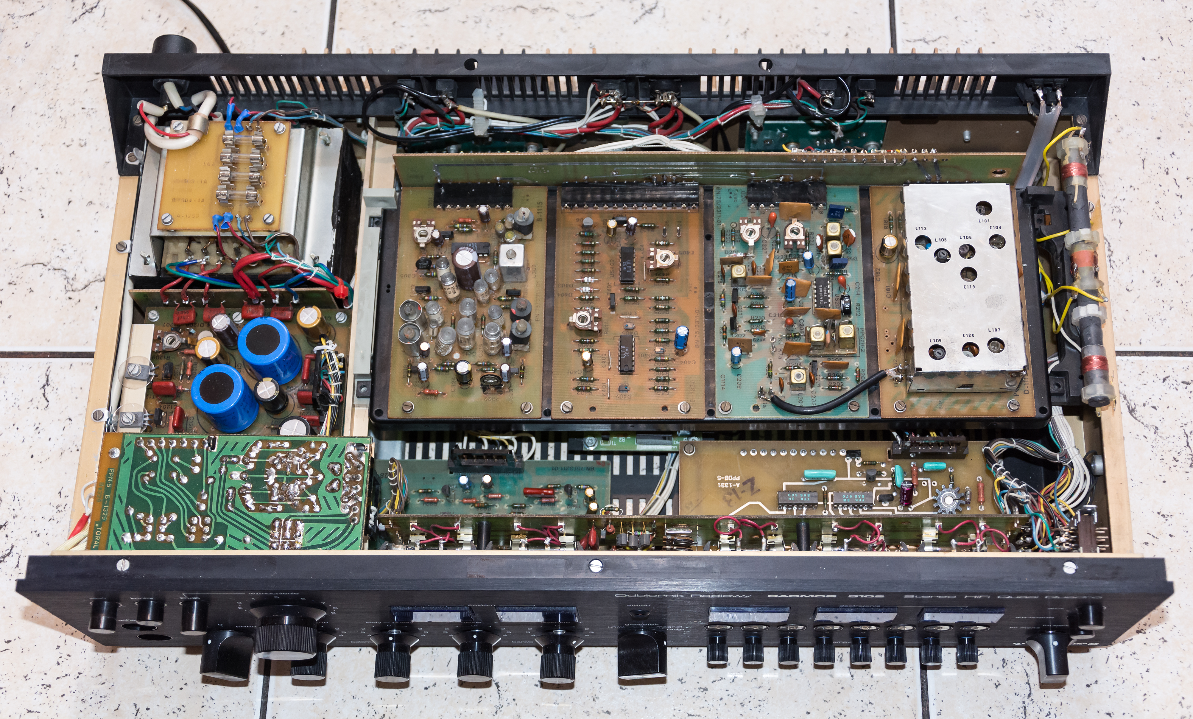 Inside of the Radmor 5102 tuner amplifier